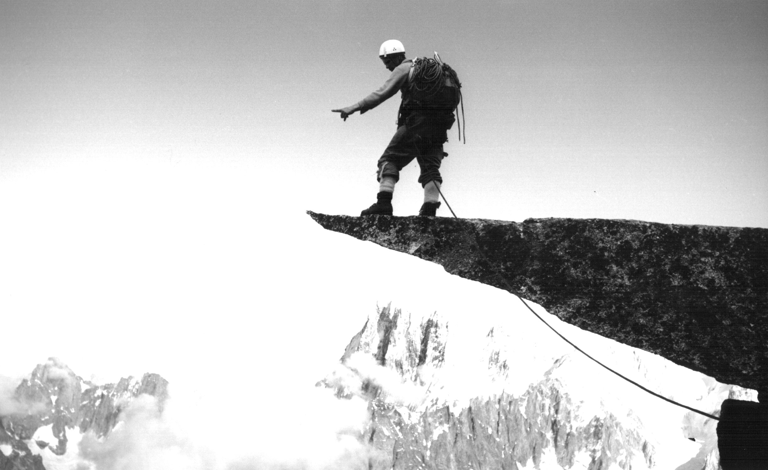 John Harlin atop the Aiguille du Fou, after the ascent of the South Face, Chamonix Aiguilles, Mont Blanc Massif, Chamonix, France, by: John Harlin, Gary Hemming, Stewart Fulton, and Tom Frost, July 1963. The Grandes Jorasses beyond.